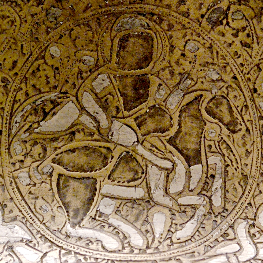 Hunting king, medallion from a candlestick. Cast copper allow with molded decoration inlaid with engraved silver and black paste, 13th century. From Djezireh.